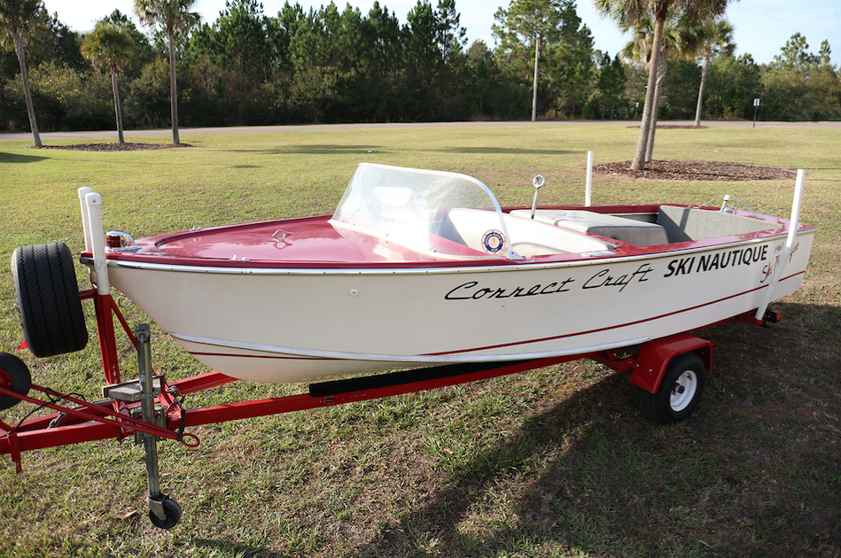 Original 1961 Ski Nautique